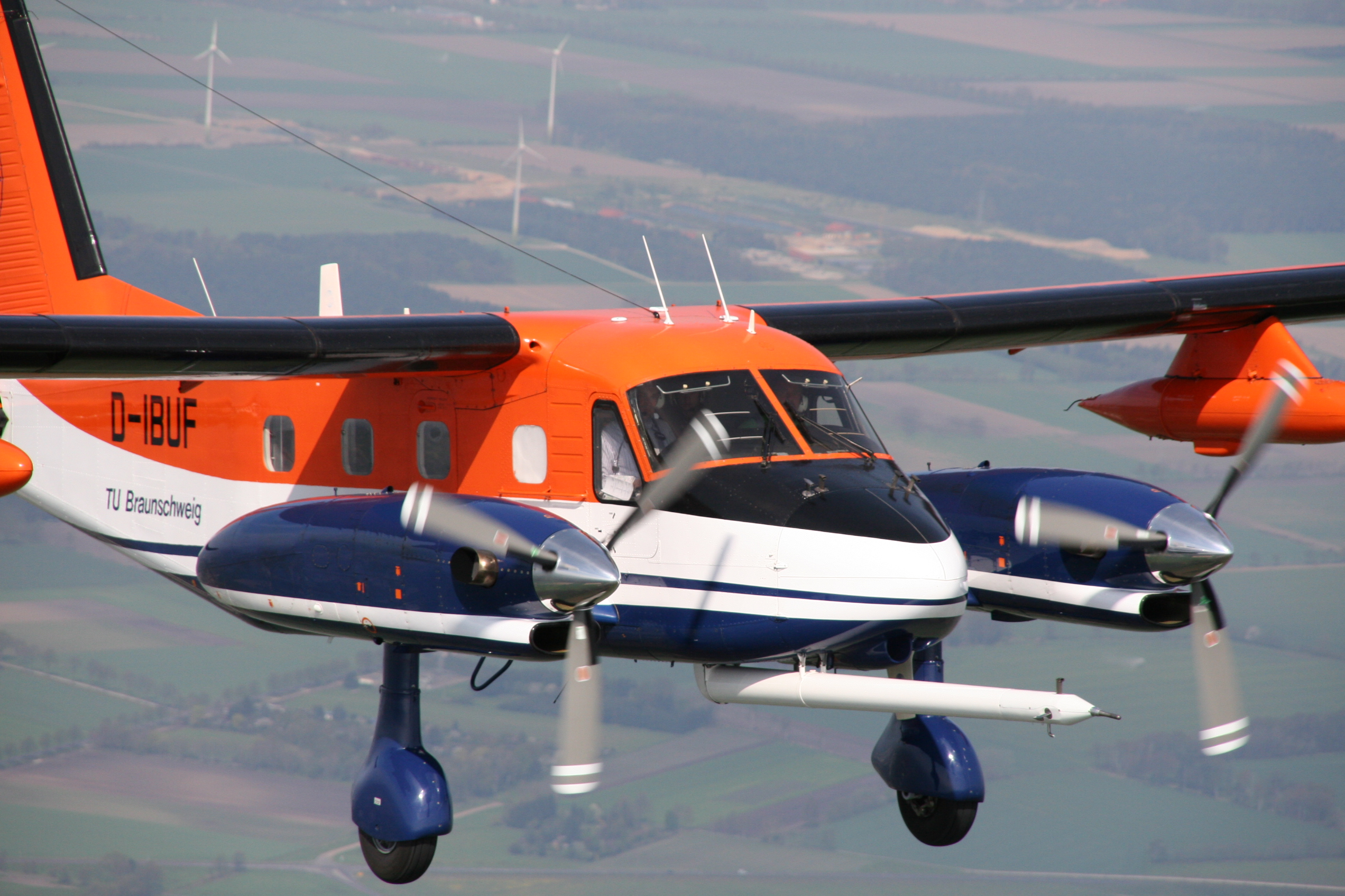 Dornier 128-6 of Technical University Braunschweig